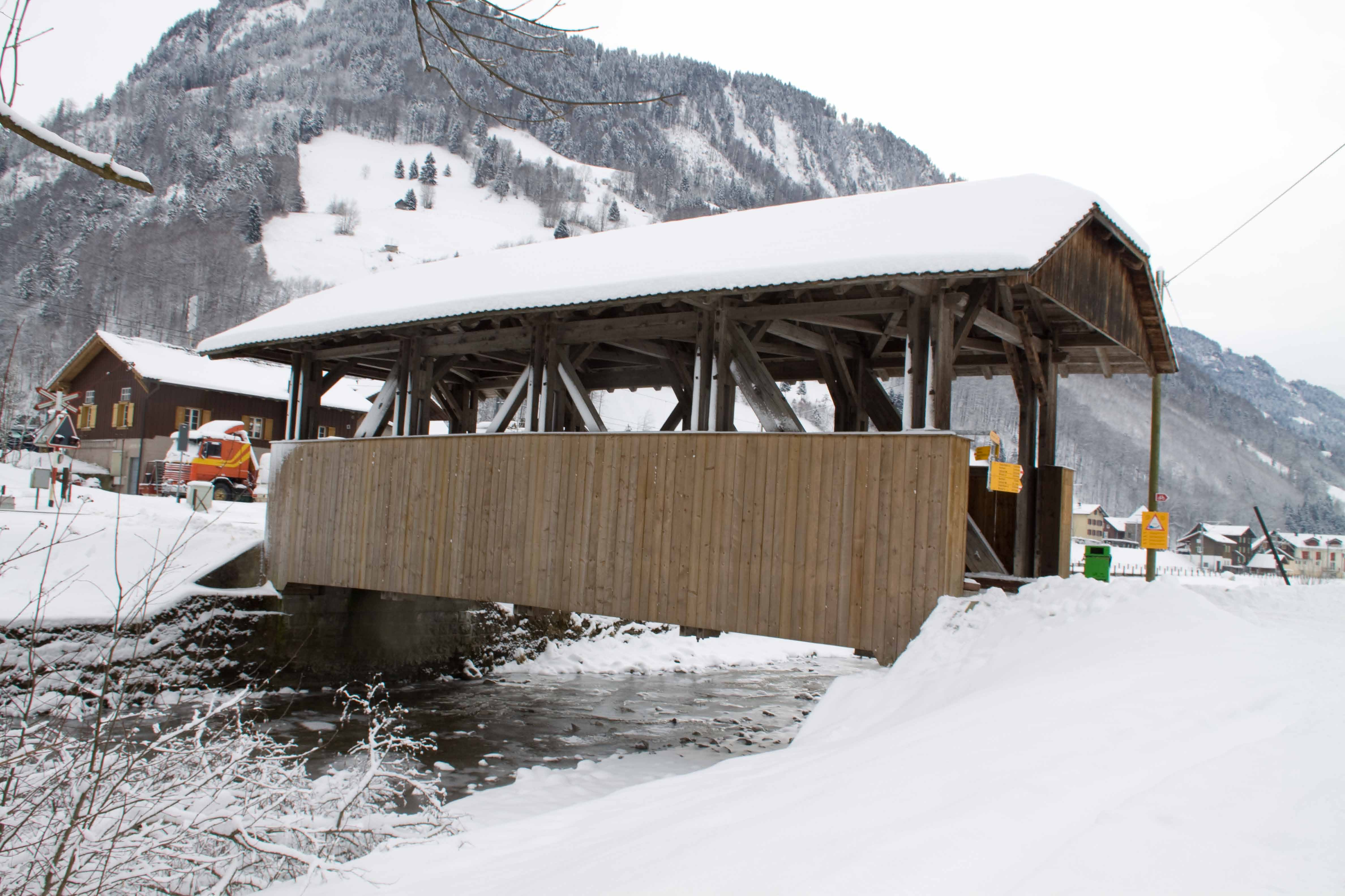 Third covered bridge of Wolfenschiessen